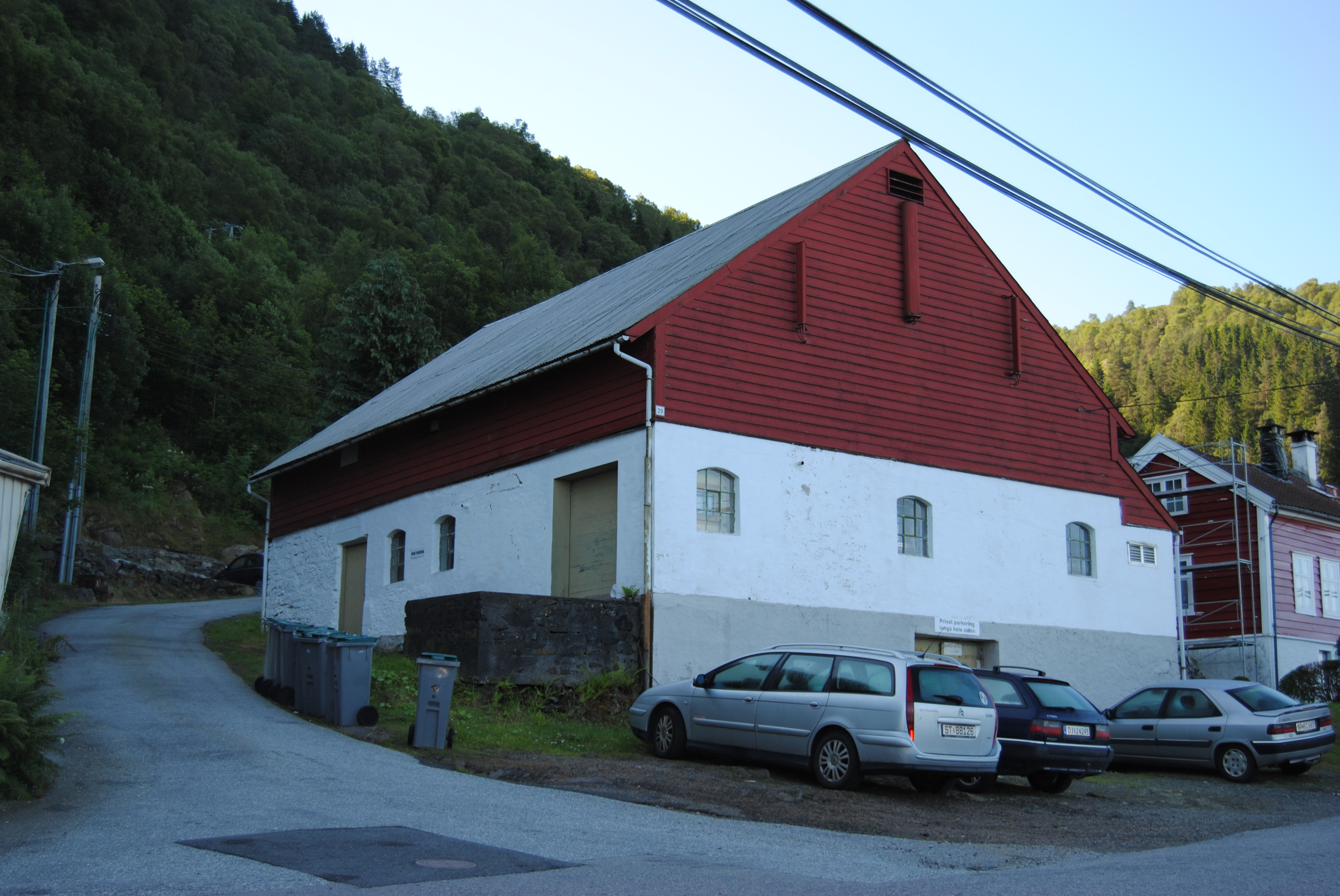 Rehersal studio of Vinskvetten in Salhus, Bergen, Norway